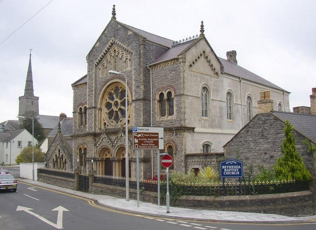 Bethesda Baptist Church, Barn Street, Haverfordwest This has a magnificent rose window. There are other details such as the cusped triangles under the gables, and the ornamental ironwork on the ridge of the wings. In the distance on the left is the spire of St Martin's Church.